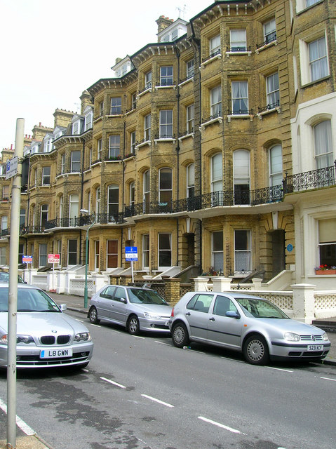 Hangover Square Actually its First Avenue, Hove but the visible blue plaque marks the childhood home of writer Patrick Hamilton creator of the play Rope and novels, Twenty Thousand Streets Under the Sky and Hangover Square itself part of which was set in Brighton. The house with the white around the windows is actually the northern portion of the Imperial Hotel.